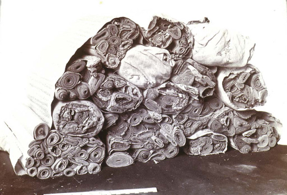 Bundles of scrolls from the cave, photographed by Stein.